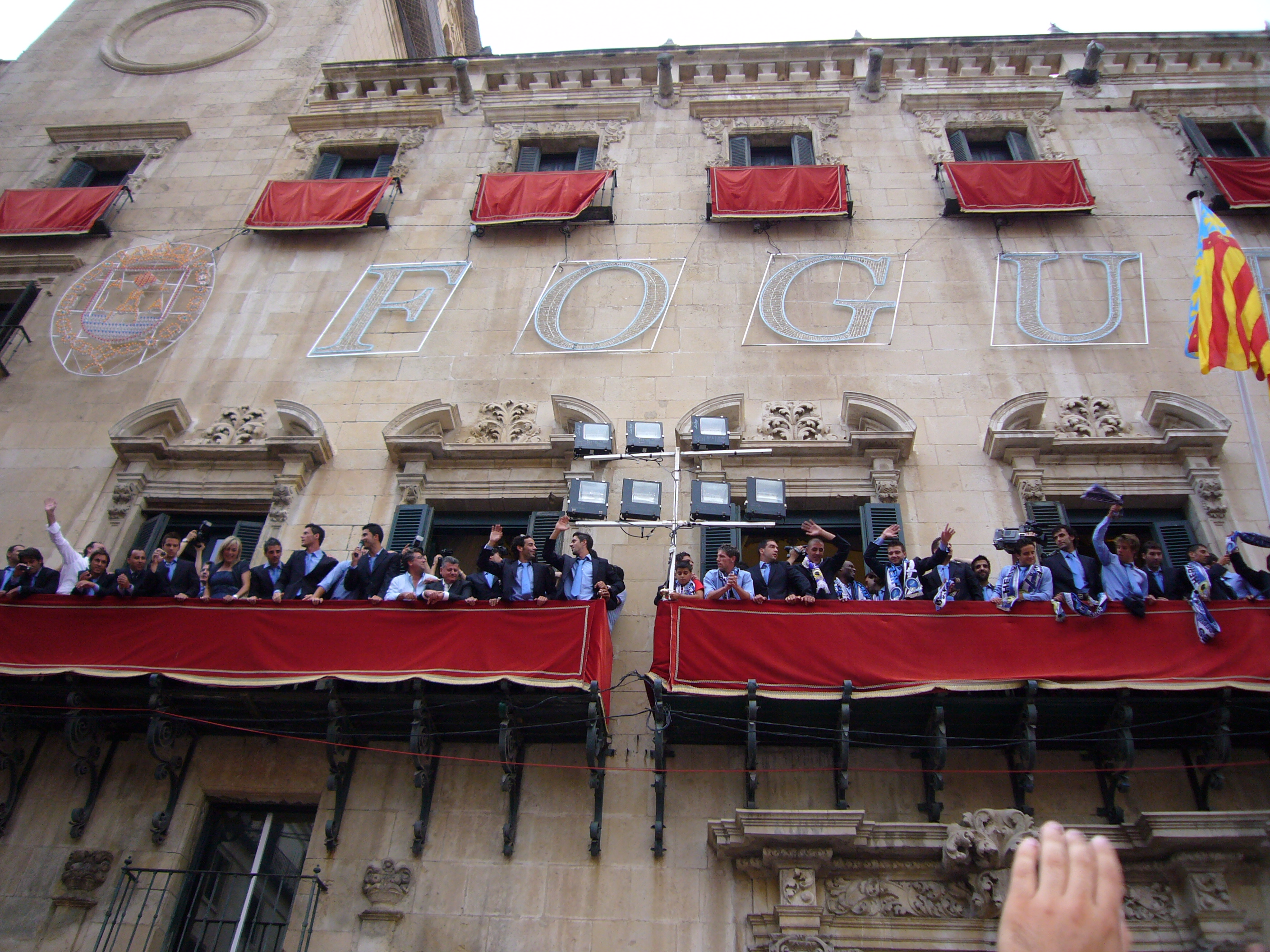 Hercules C. F. and Mayor Sonia Castedo on the balcony of the Alicante Town Hall during the celebration of the promotion to First Division in the 2009/10 season.